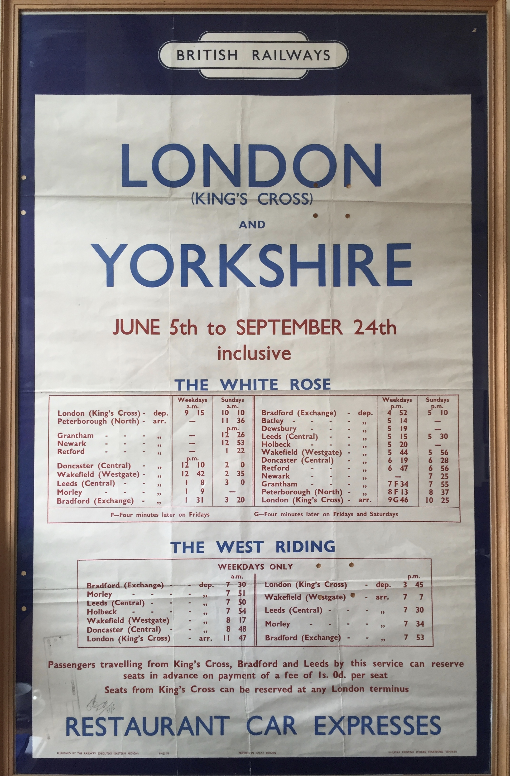 Dating from 1950